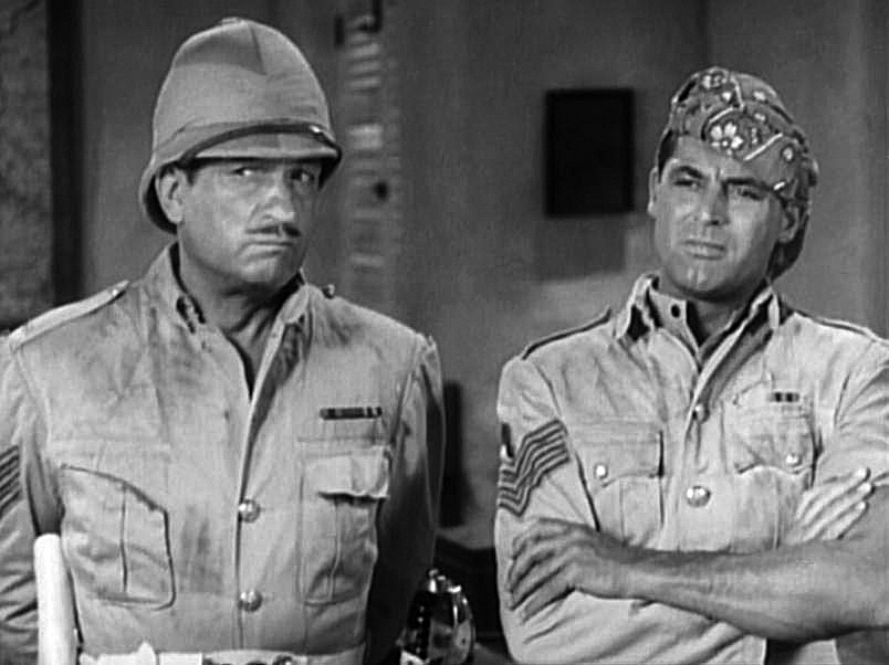 Victor McLaglen & Cary Grant in Gunga Din - trailer (cropped screenshot)